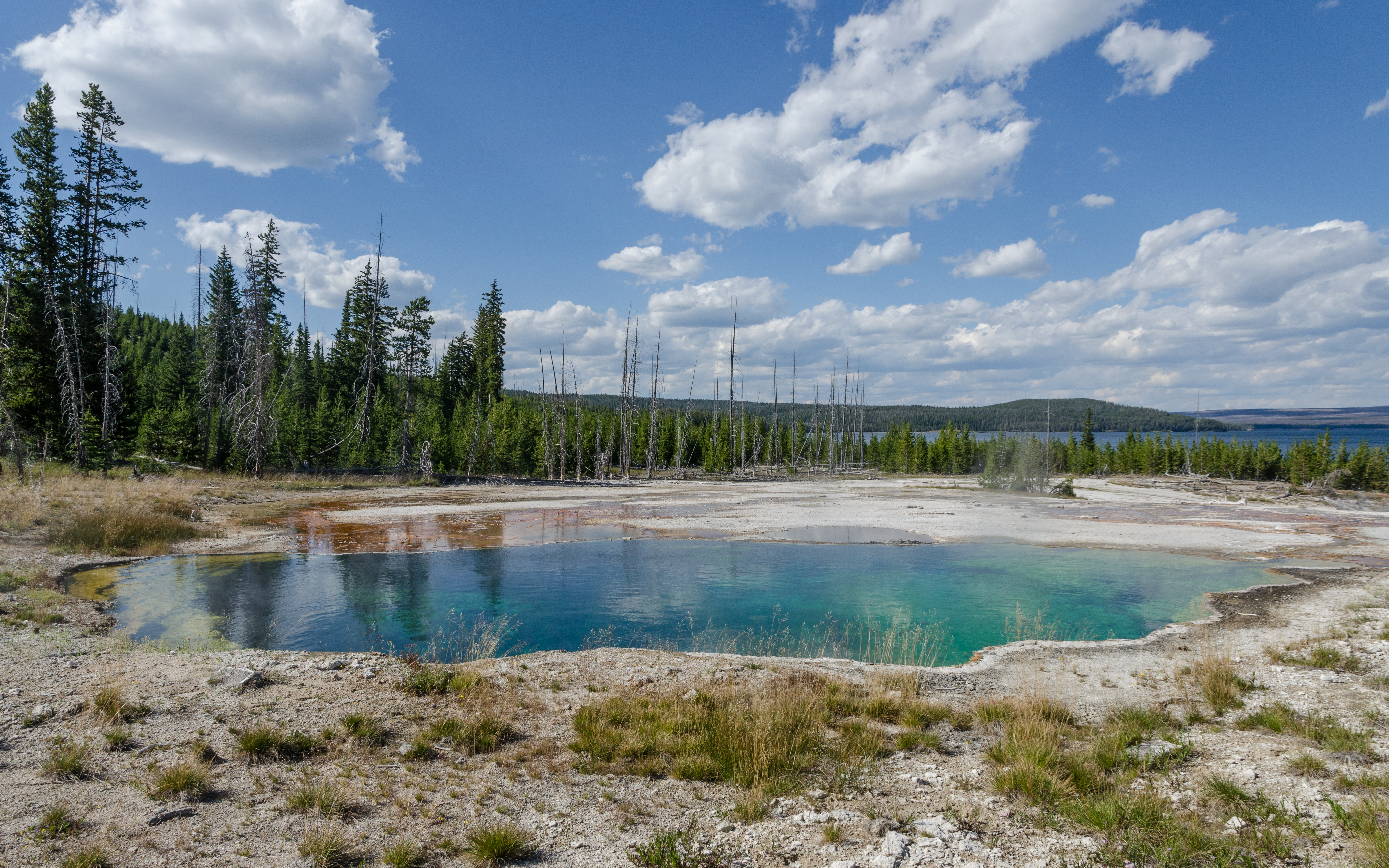 The Abyss Pool in Yellowstone National Park, part of the West Thumb Geyser Basin